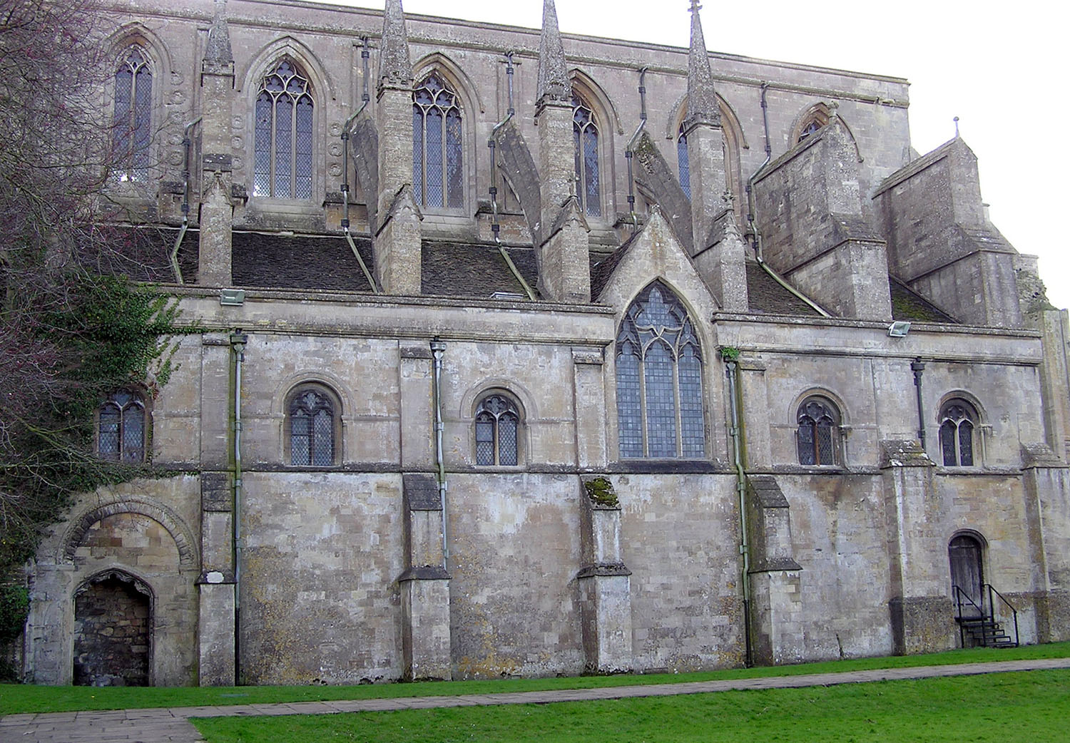 A view of Malmesbury Abbey in Wiltshire, England. Taken by Adrian Pingstone in February 2005 and released to the public domain.